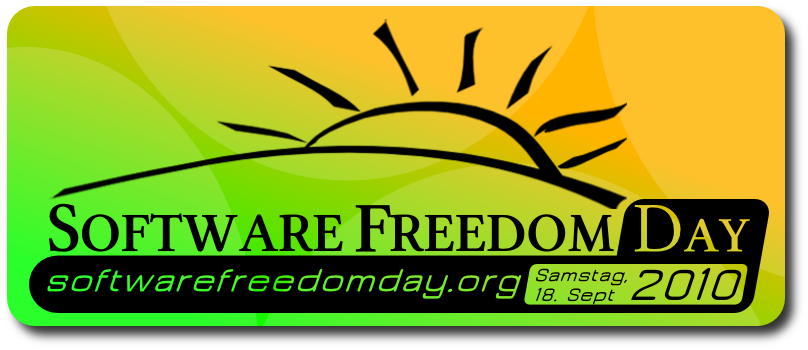 Logo of Software Freedom Day in 2010. From SFD oficial website.